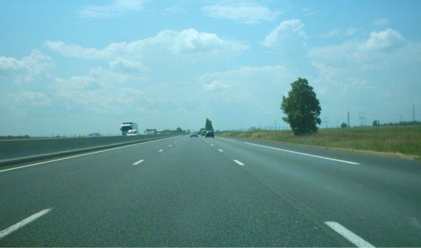 A10 autoroute near . Author: Gregory Deryckère